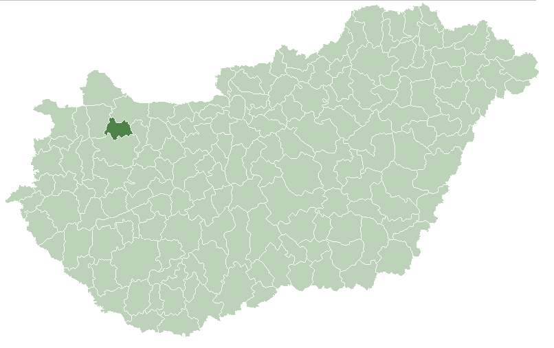 Subregion Tét in Hungary.